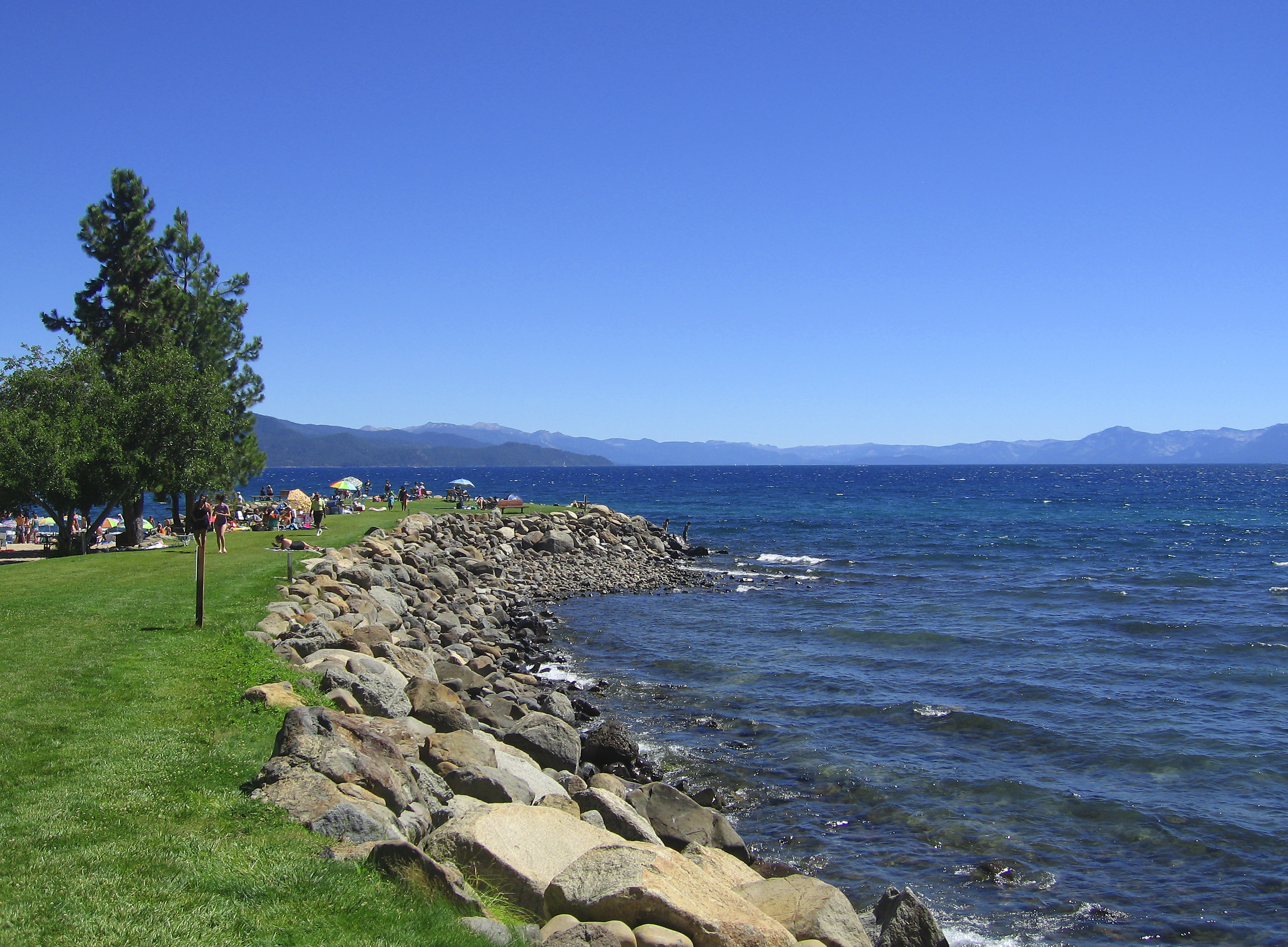 Just back from a weekend at beautiful Lake Tahoe for the annual family gathering. Also the first test of my Merax PhotoFinder GPS device, which automatically geocodes images. Works great!